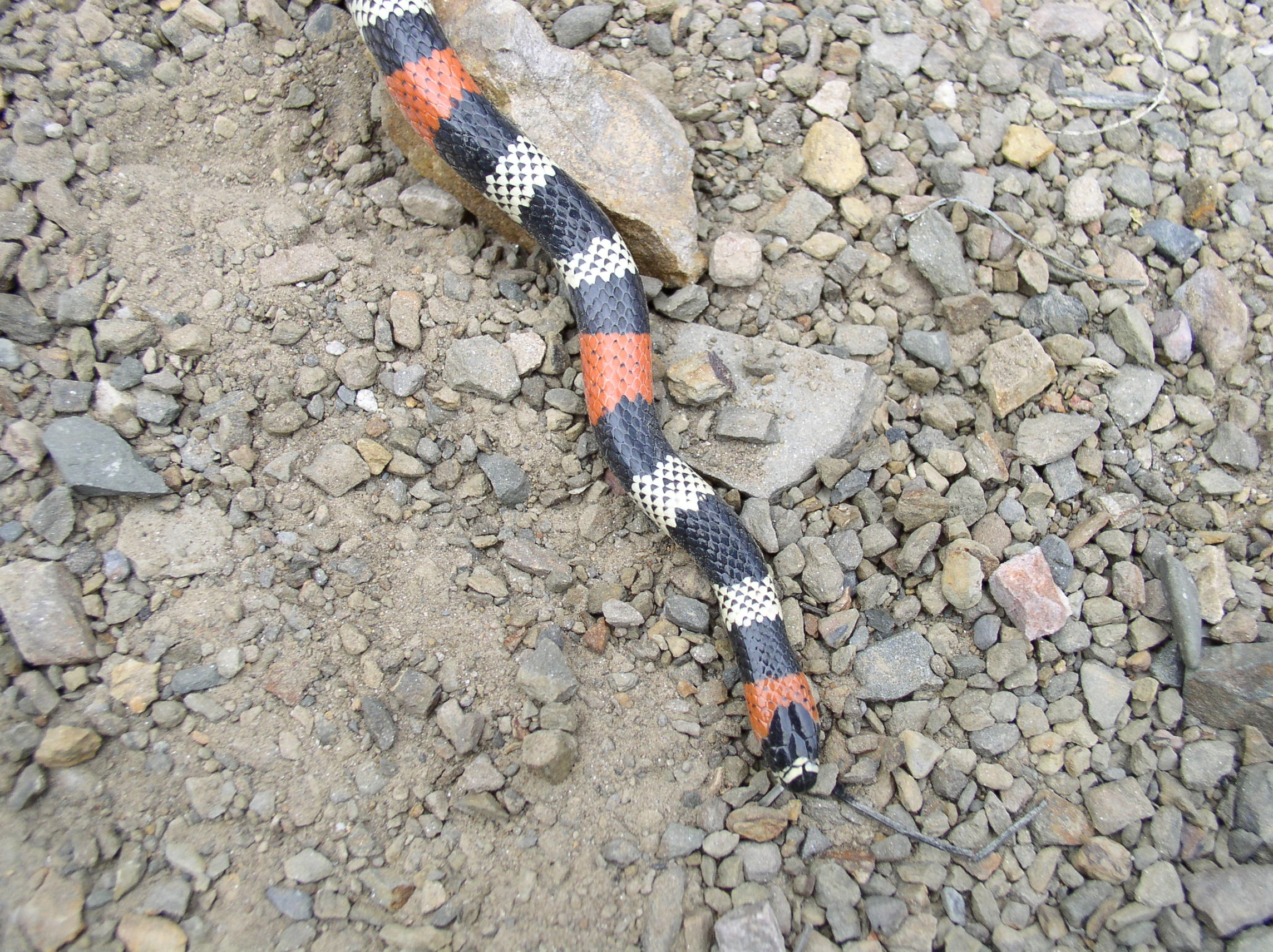 Bolivian coral snake (Micrurus serranus) in central Bolivia.